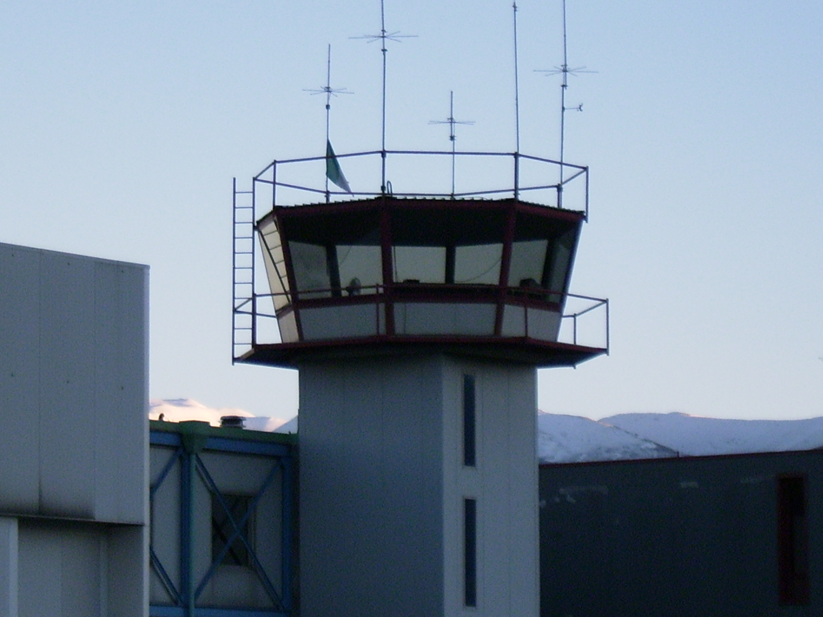 L'Aquila airport